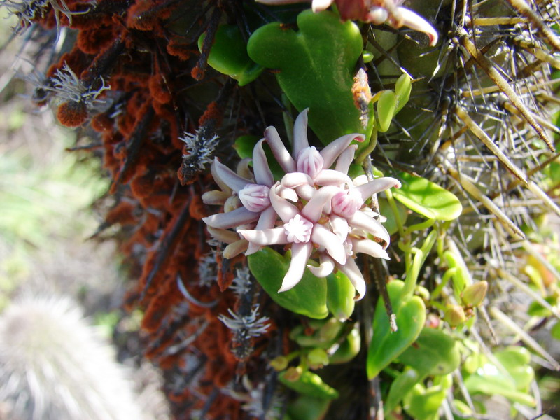 Diplolepis boerhaviifolia, growing on Leucostele chiloensis